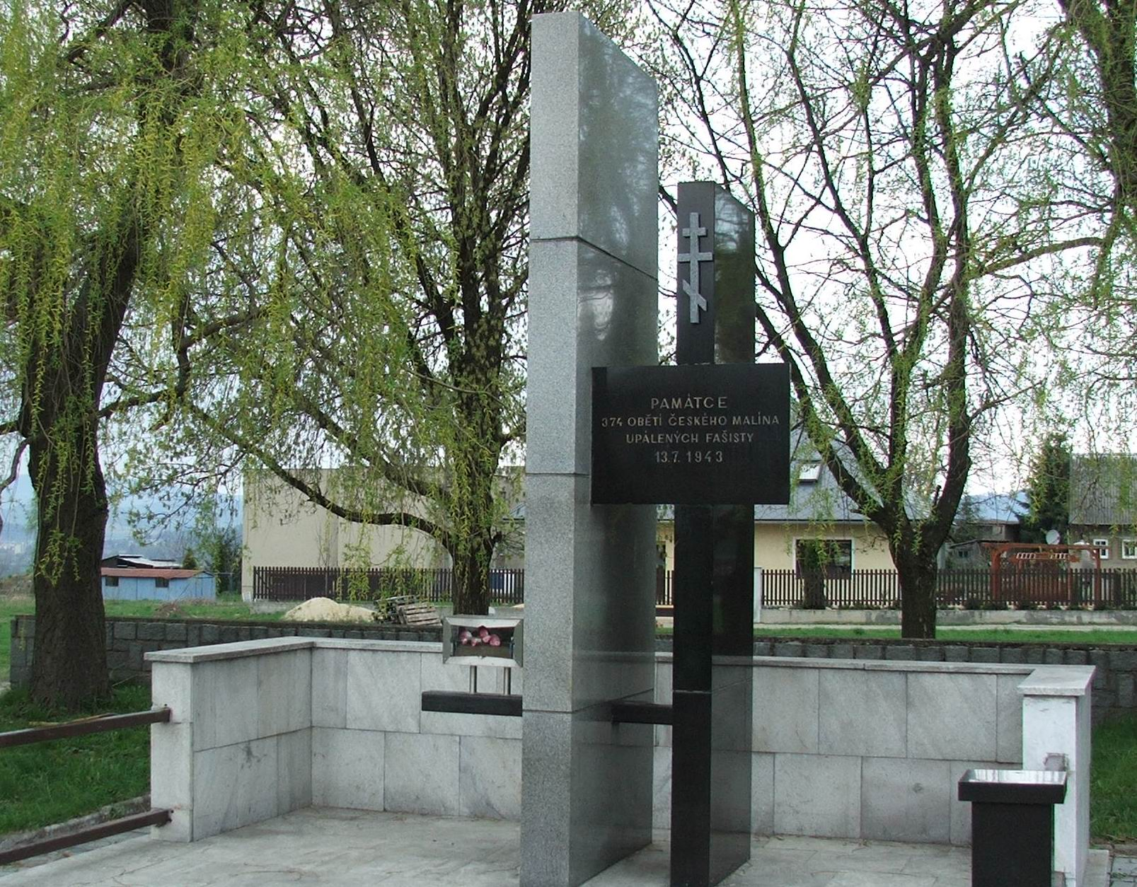 Monument to victims from czech village Český Malín in ukrainian Volynia destroyed by nazist during WWII. Nový Malín formerly Frankštát, Olomouc Region, Czechia